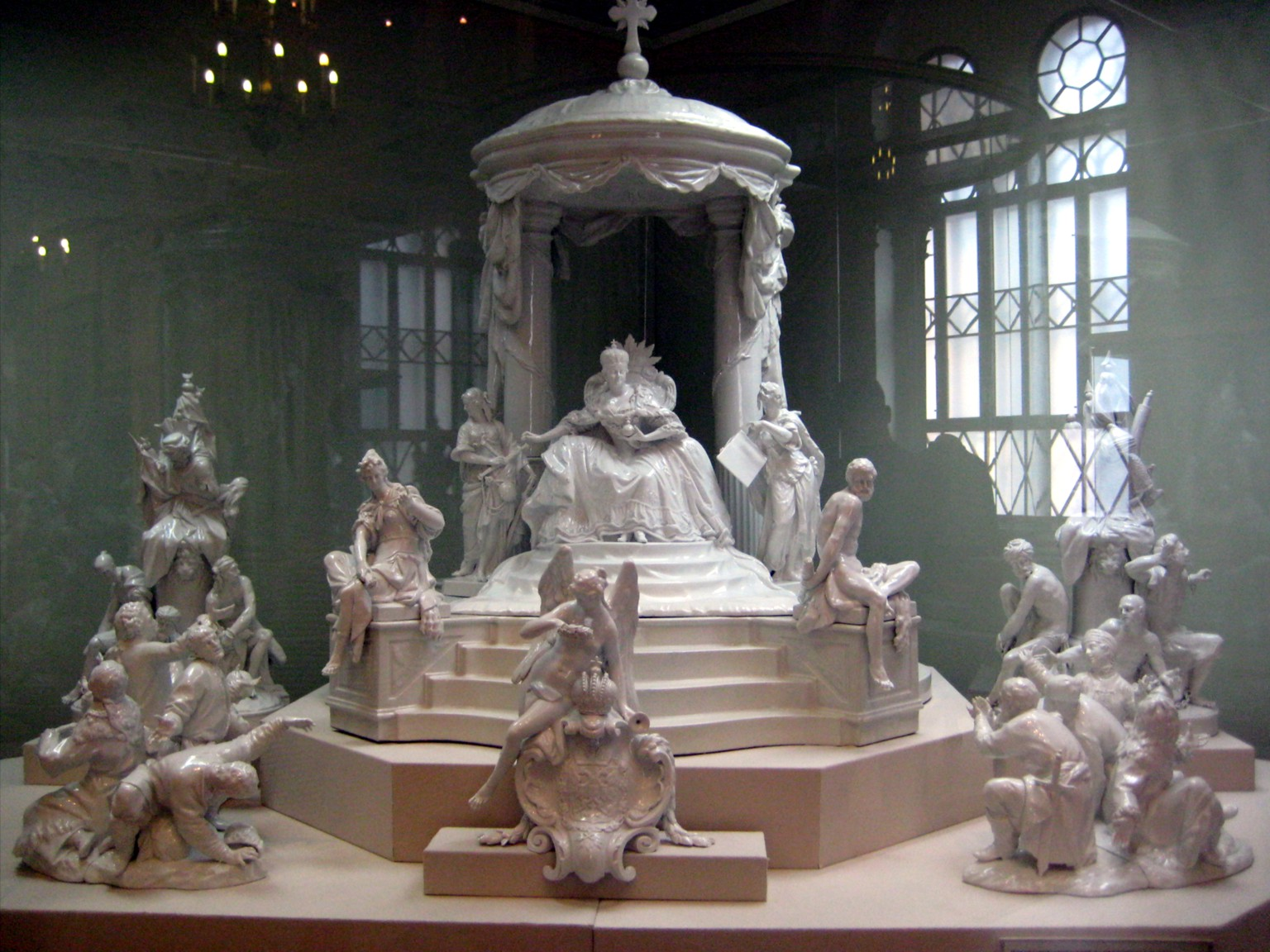 Table decoration, part of dinner service, gift from Friedrich II to empress Catherine the Great. Allegory of her triumphs in politics. Königliche Porzellan-Manufaktur Berlin. Models by W. and F. Meyer, 1770-72, repeat in 1908